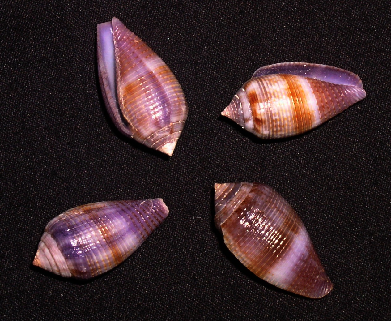 Acorn Cone - Conus glans